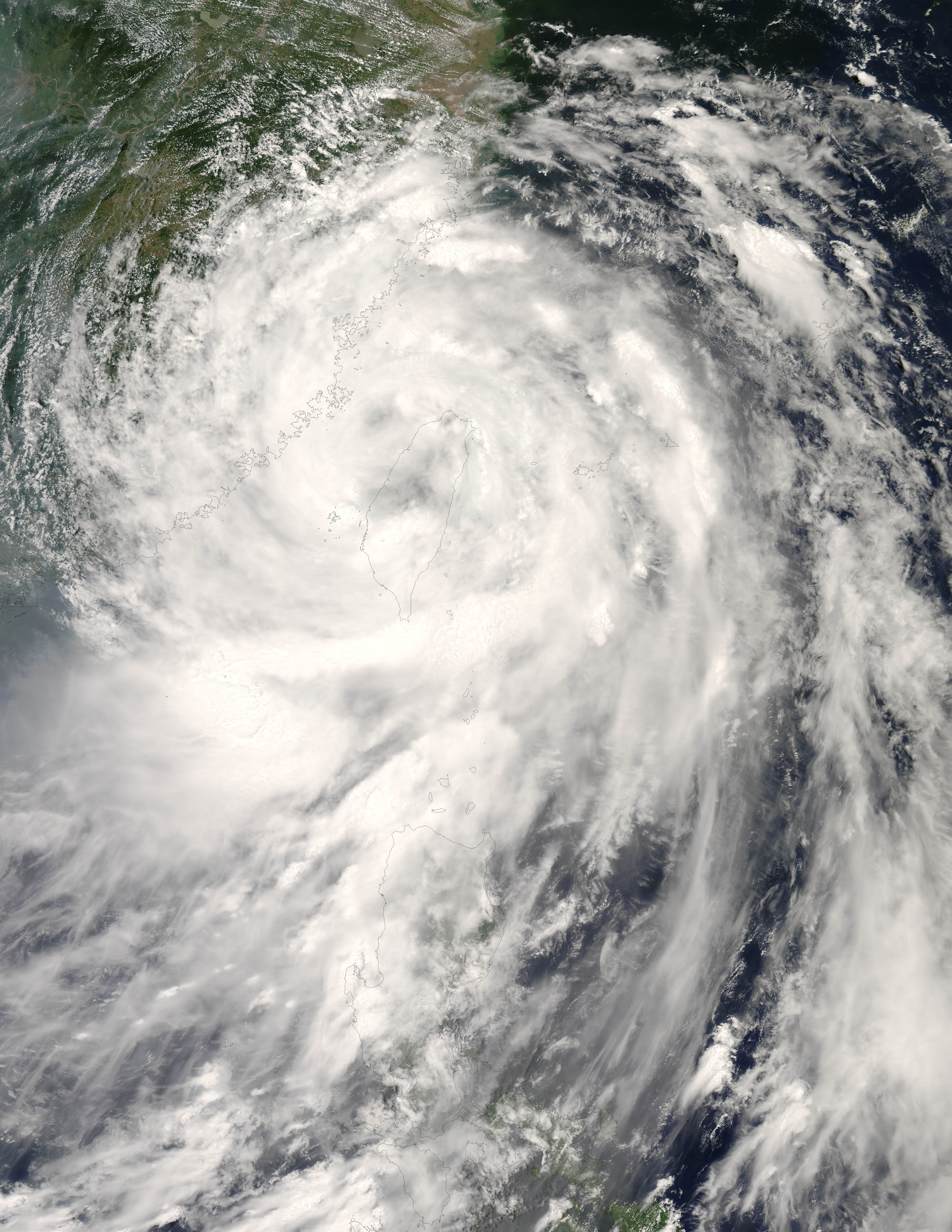 Typhoon Fung-wong (2008), as seen from Aqua Satellite on 2008-07-28